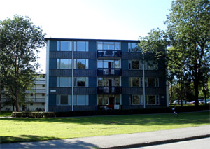 Student housing in Ulrikedal in Lund, Sweden, architect Hans Westman (1963)